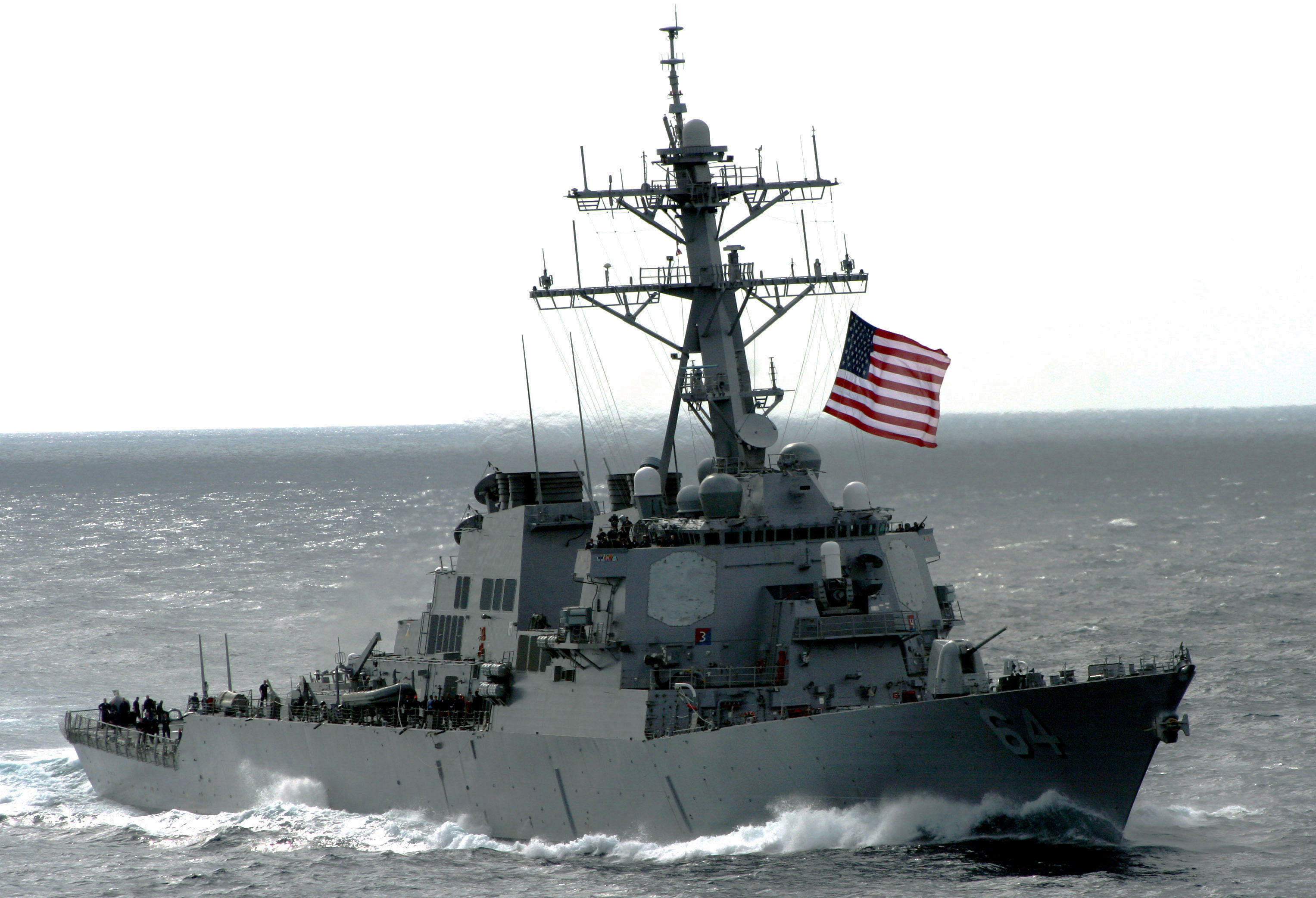 The US Navy (USN) Arleigh Burke Class Guided Missile Destroyer USS CARNEY (DDG 64) underway on the Atlantic Ocean during routine training.